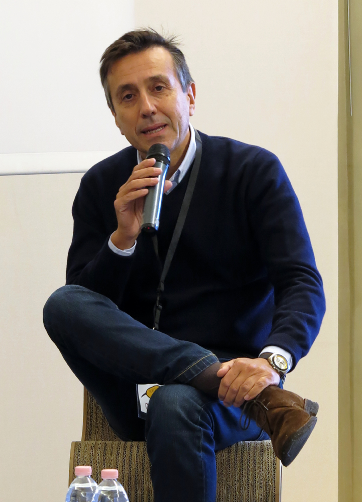 Romolo Bugaro